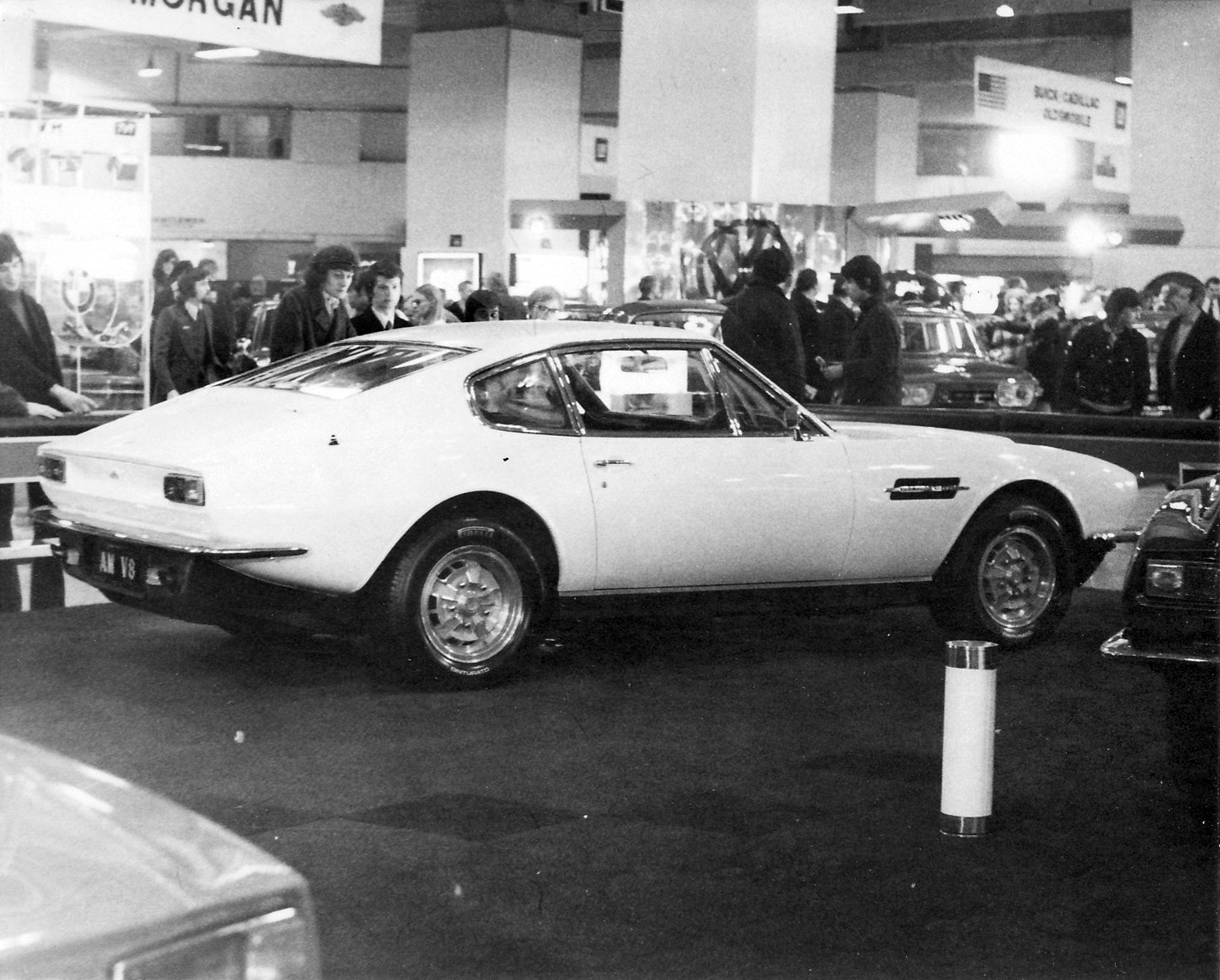 The recently introduced Aston Martin V8 (series 2) at the Earls Court Motor Show, London, 1972